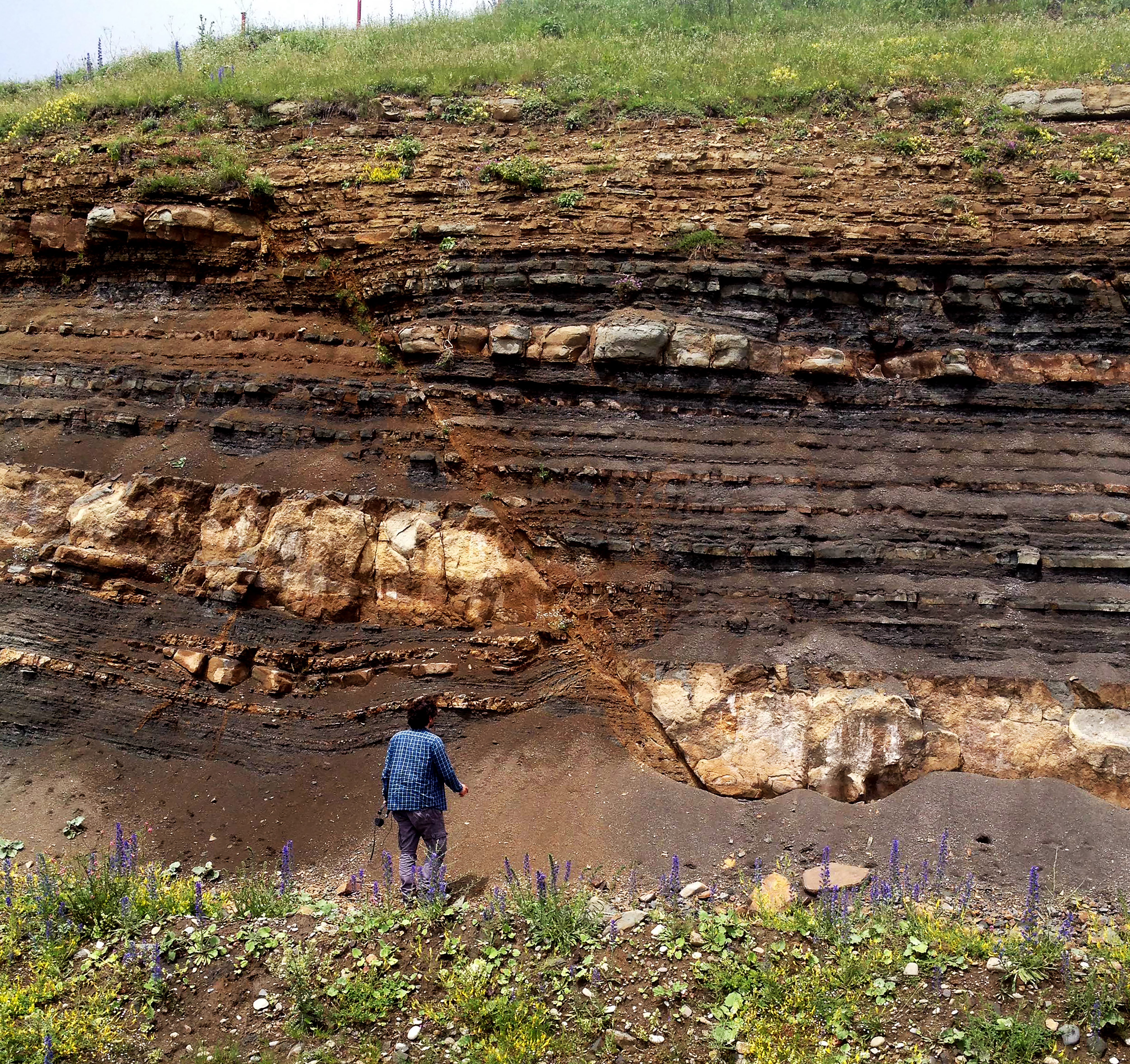 A normal fault near Tblisi in Georgia. Rock layers to the right of the fault plane have moved downwards relative to rock layers on the left. Credit: Luka Adikashvili (distributed via )